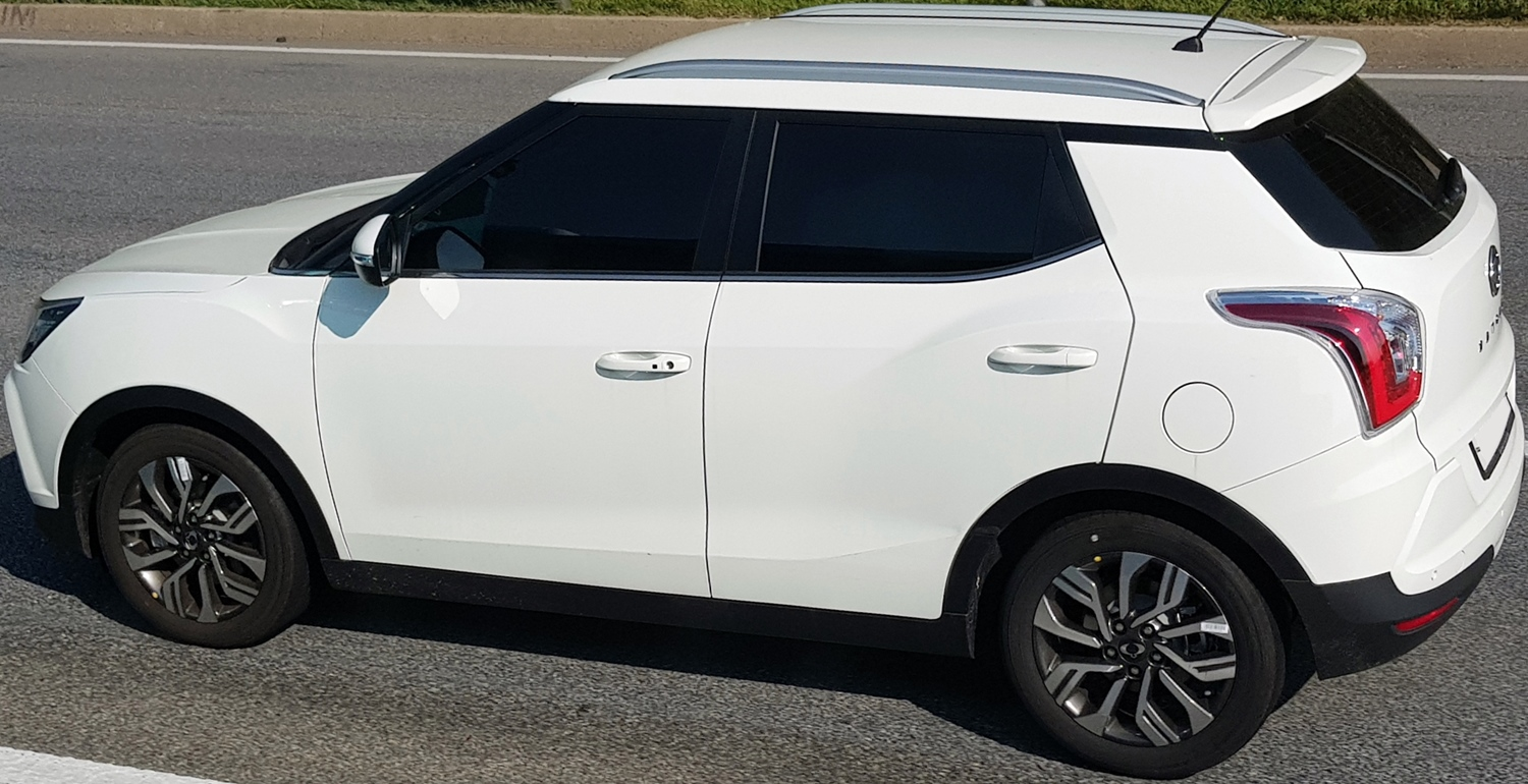 SsangYong Tivoli